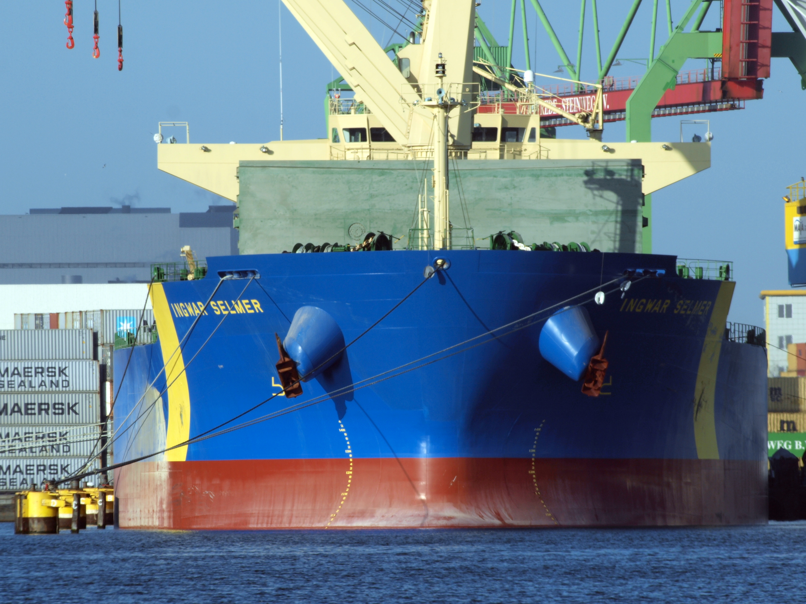 Ingwar Selmer - IMO 9500584 , close-up at Port of Amsterdam.